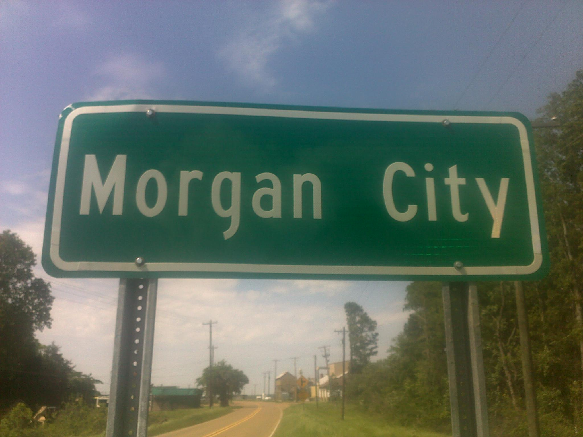 Morgan City Mississippi Highway Sign on Mississippi Highway 7